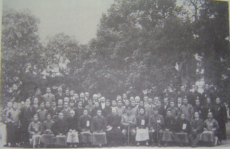 1911 Fukien Cabinet Mìng-dĕ̤ng-ngṳ̄: 1911 nièng Hók-gióng Gŭng-céng-hū Nô̤i-gó̤h